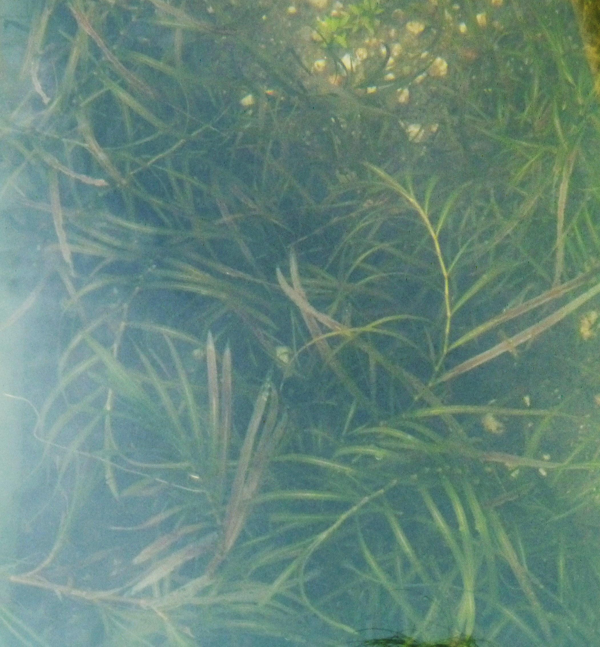 Potamogeton oxyphyllus